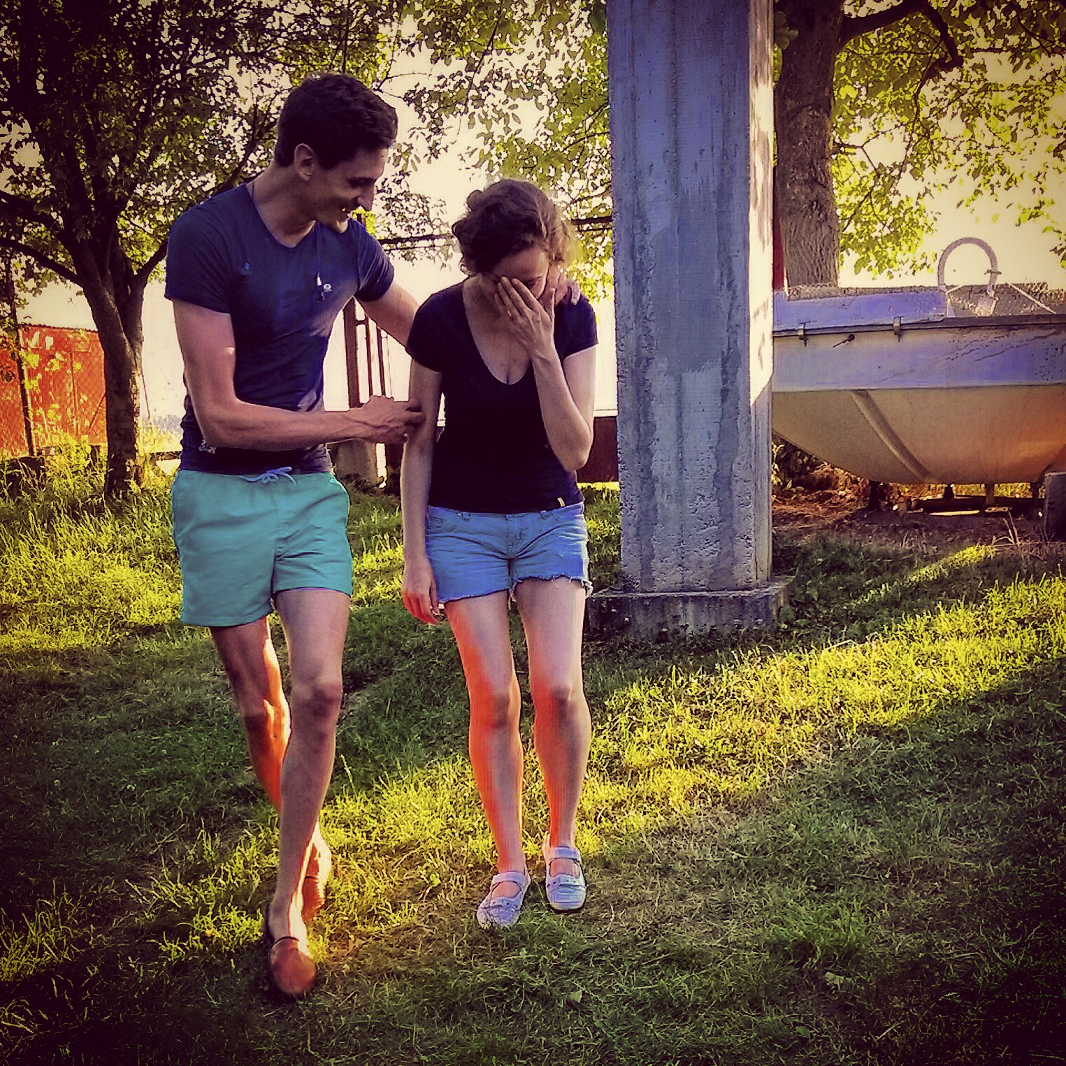 Tudor and Delia Summer 2015 Filtered with instagram.